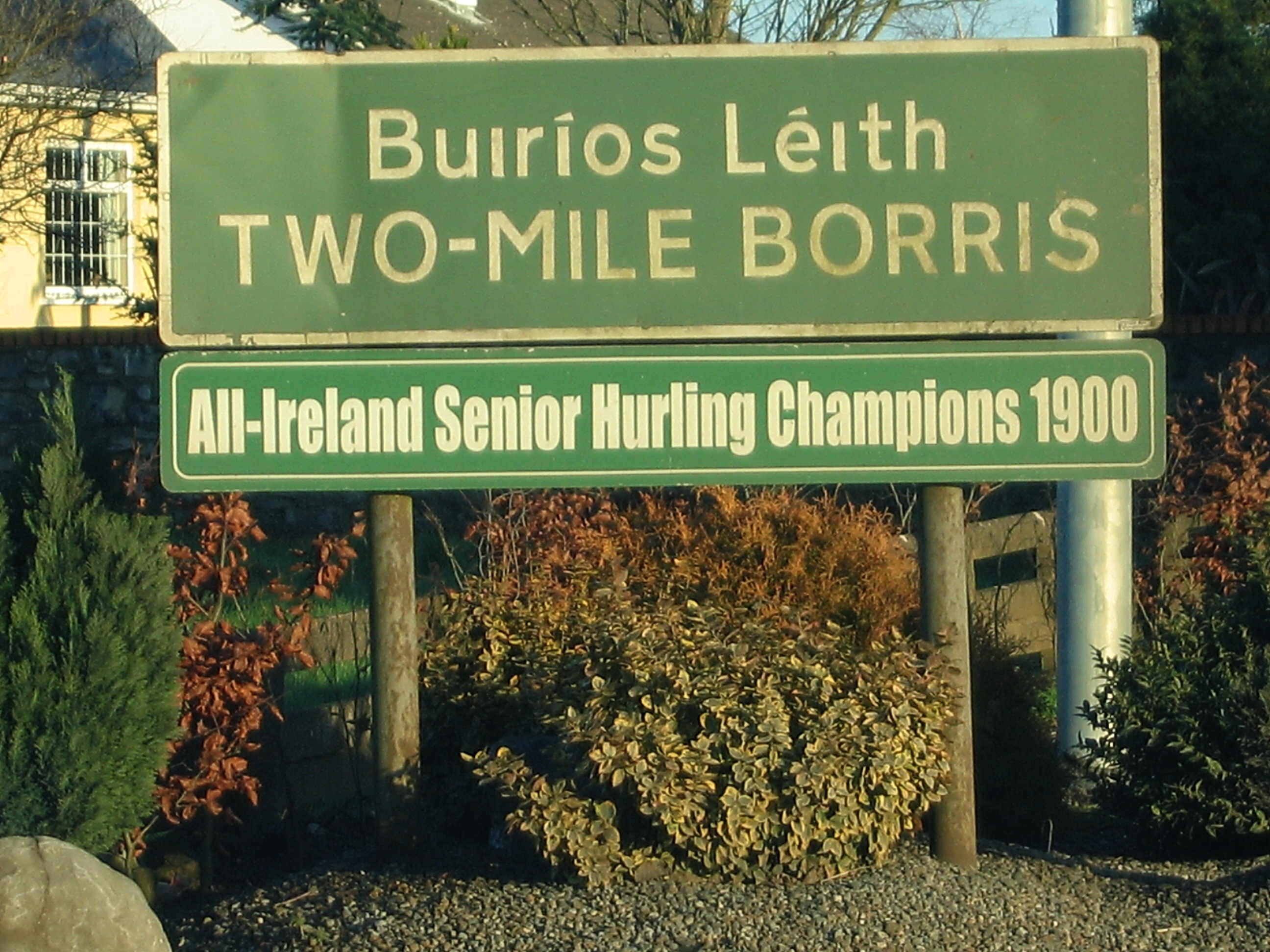 Two-Mile-Borris in the good ole days